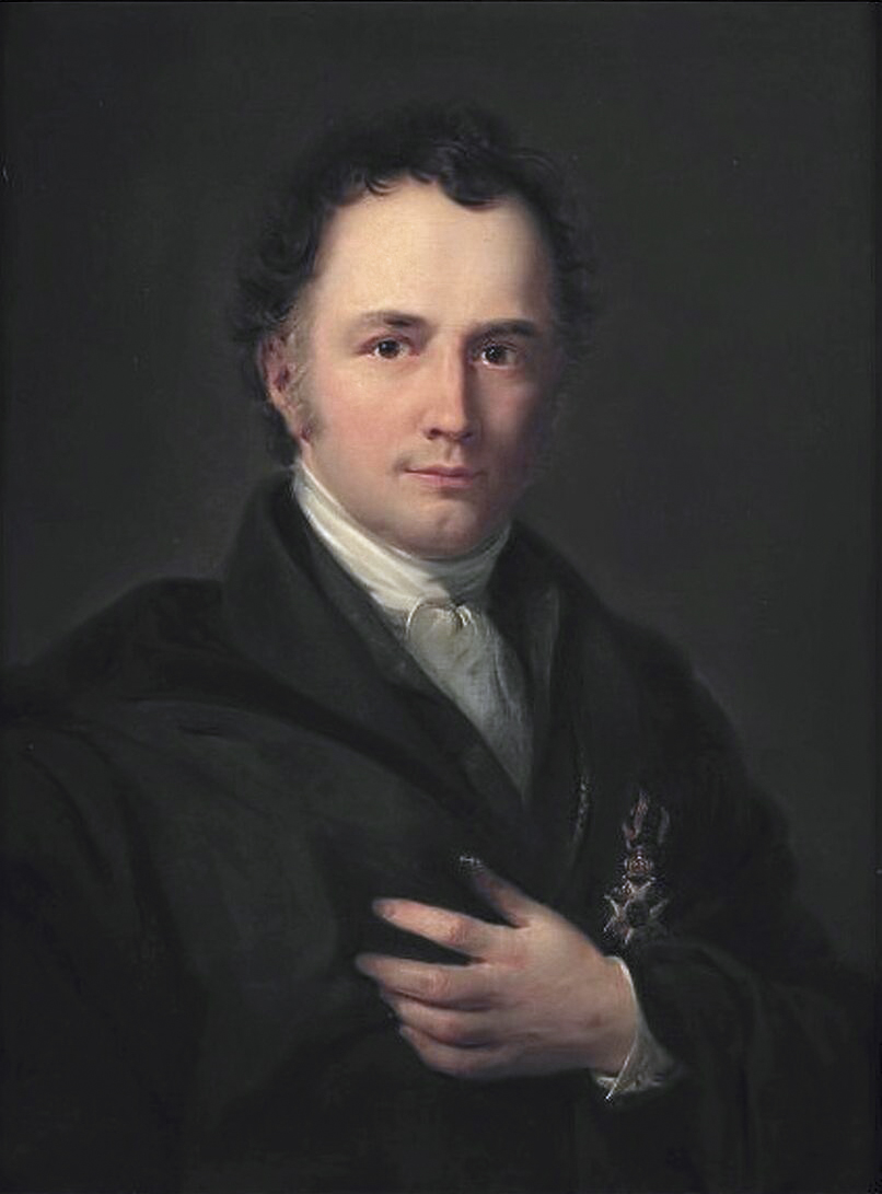 Self-portrait oil on canvas 80 x 64,7 cm 1820 - 1828